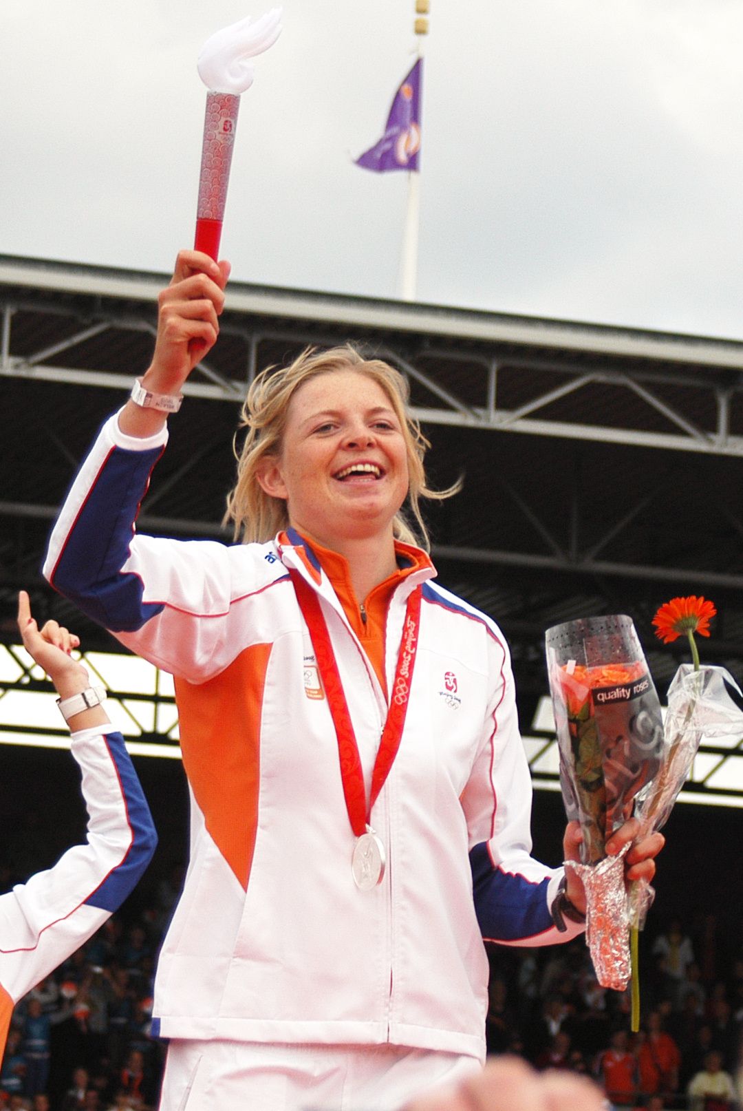 Roline Repelaer van Driel at the Olympic welcome in the Olympic Stadium in Amsterdam, the Netherlands.